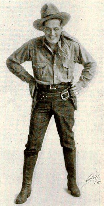 American actor George Chesebro, noted in the caption as starring in two reelers starring Texas Guinan, on page 1200 of the May 24, 1919 Moving Picture World.